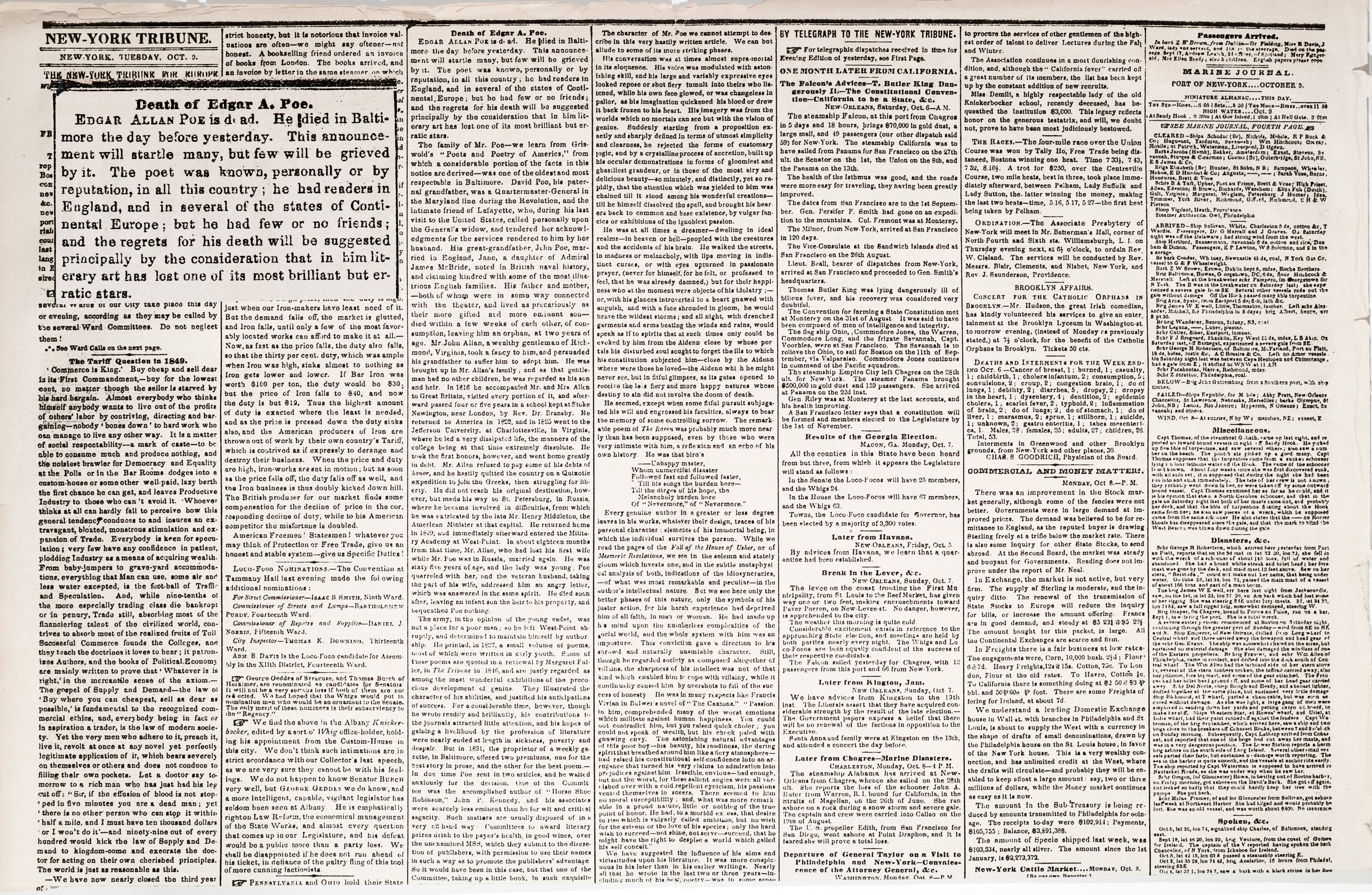 The infamous first obituary on Edgar Allan Poe, published in the New York Daily Tribune, 9 October 1849, two days after the author’s death and delusively signed “LUDWIG” (aka Rufus Wilmot Griswold). For full text, check this site.